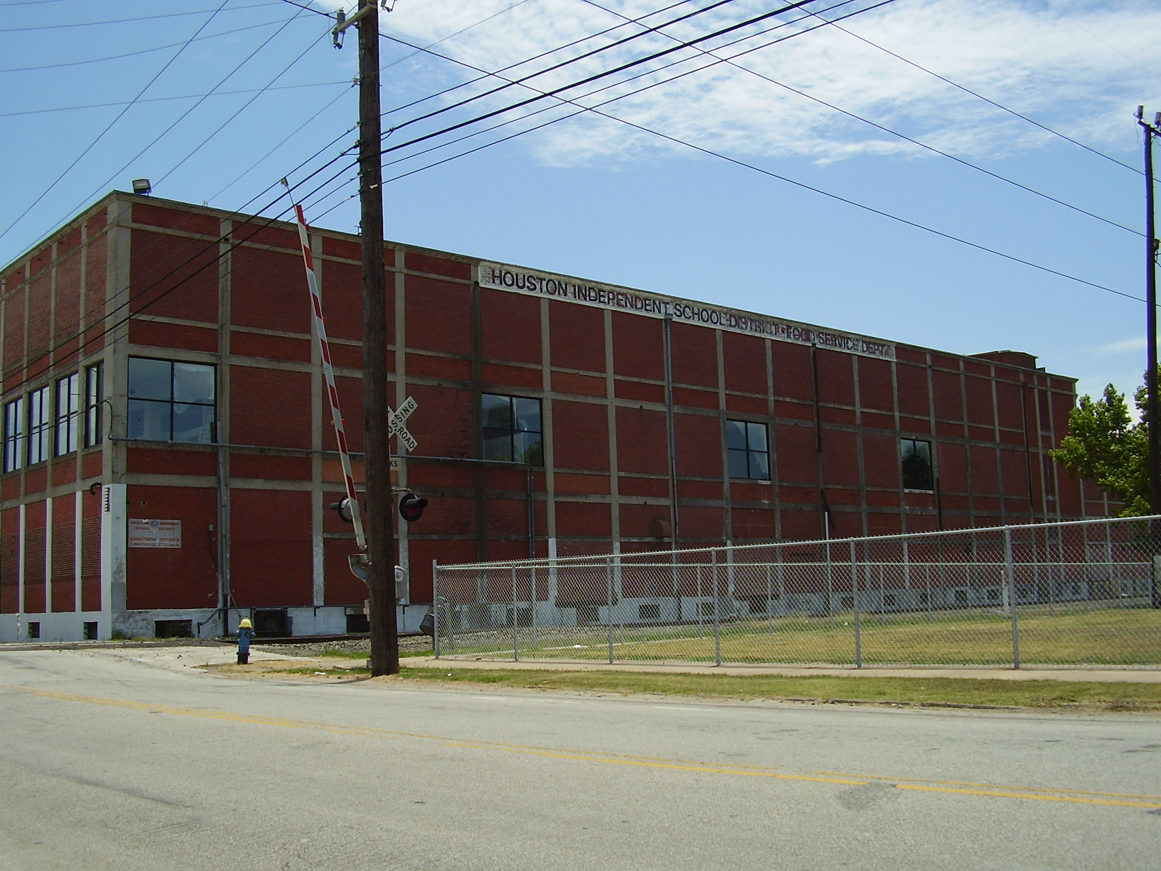 Saint Arnold Brewing Company plant, formerly the Houston Independent School District Food Service Building